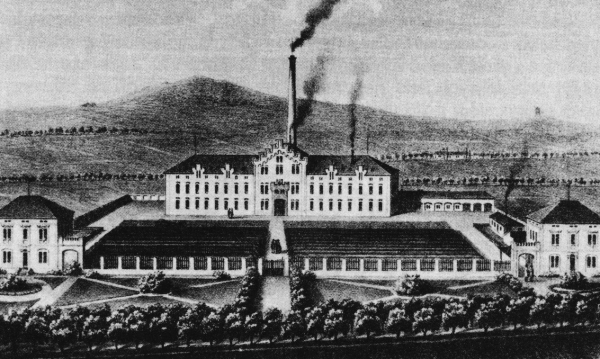 Sugar factory in Sulejovice - 1860